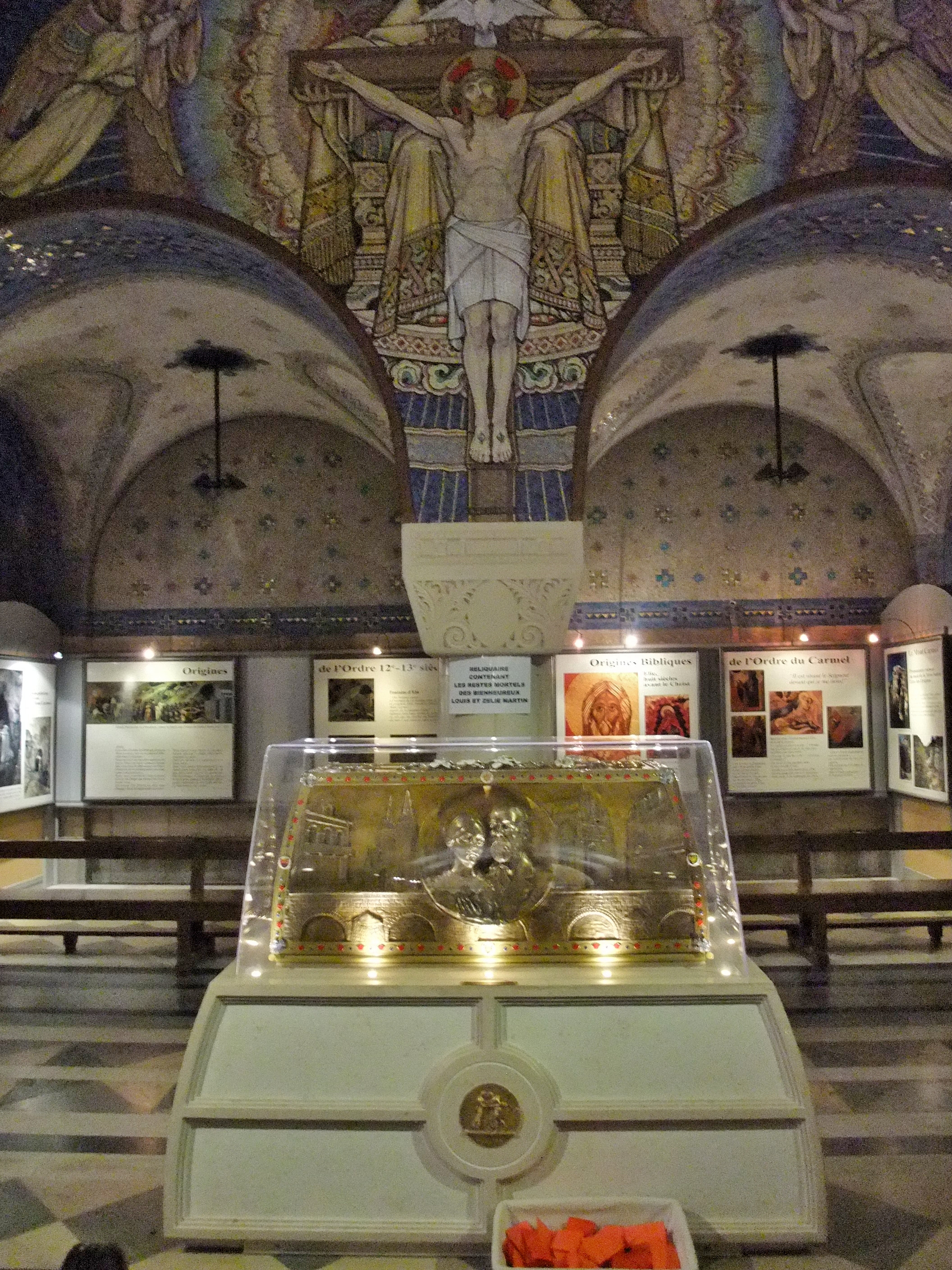 Interior of Basilica of Sainte-Thérèse in Lisieux, France